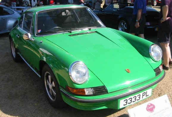 Photograph of the front of a 1973 Porsche 911 2.7 Carrera RS taken by SamH at the 2003 Goodwood Festival of Speed.